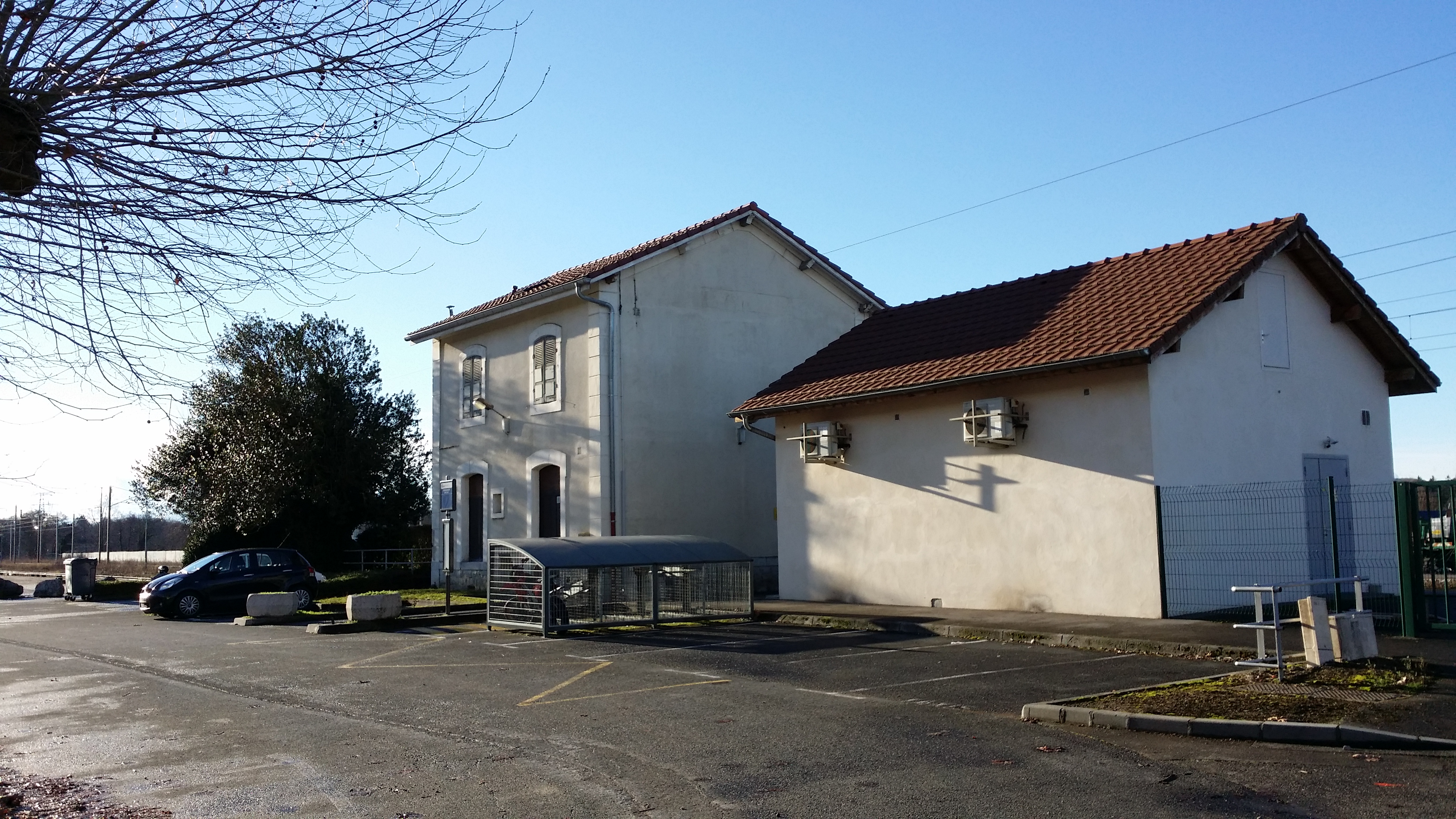 Front of Perrignier station